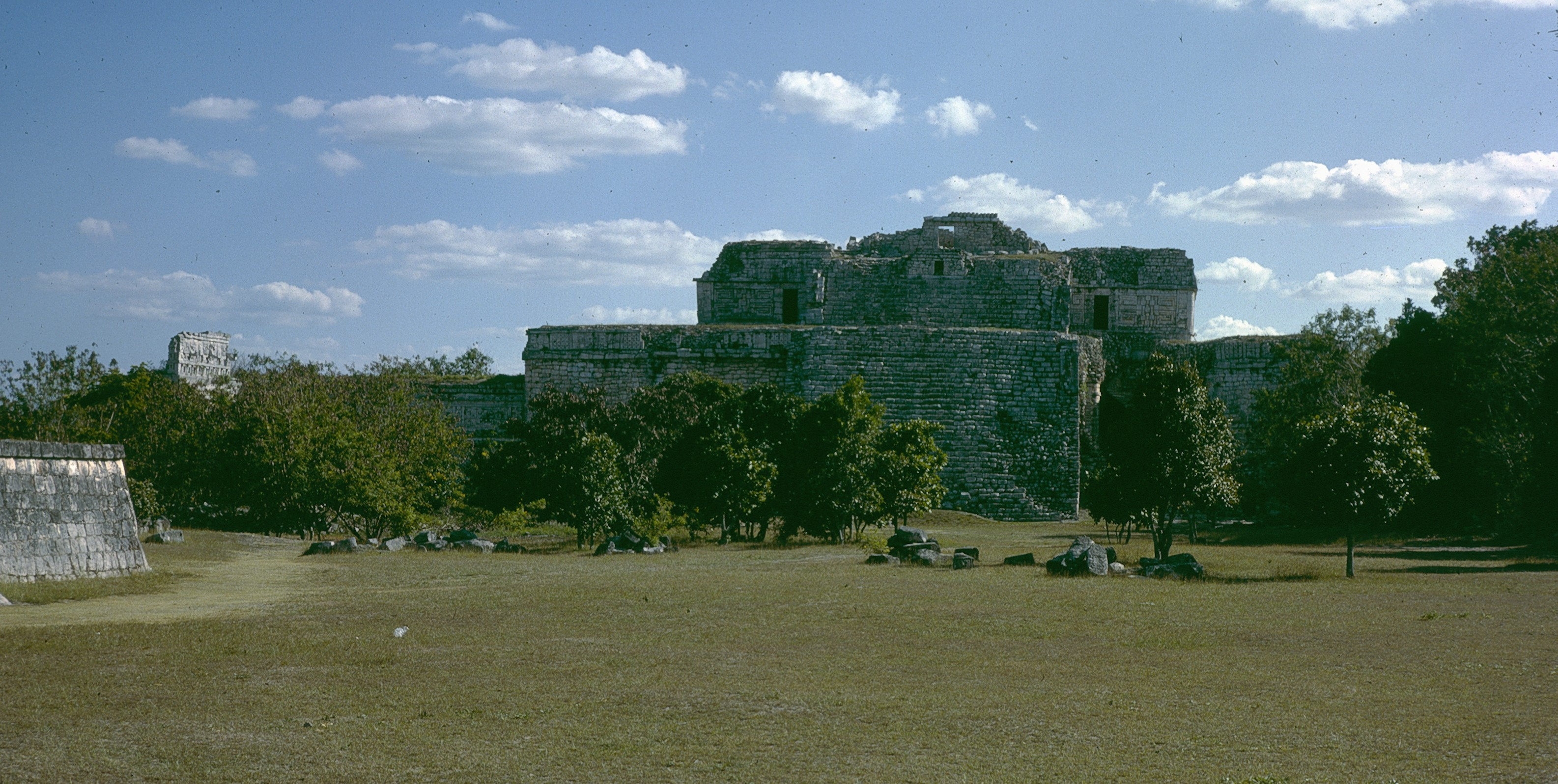 Chichen Itza,Yucatan, Mexico: Monjas (north side)